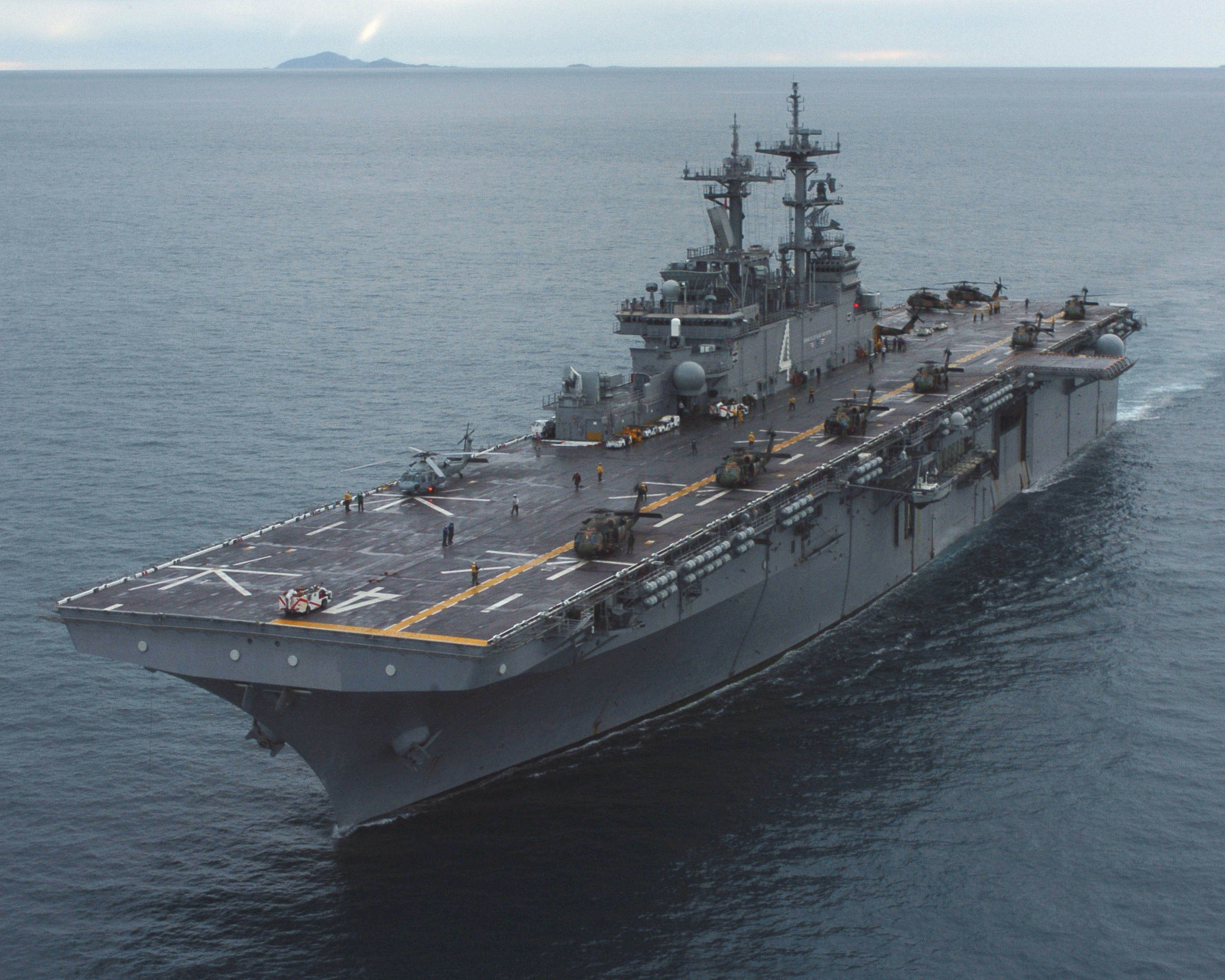 Shoalwater Bay (JUN. 16, 2005) - USS Boxer (LHD 4) prepares to launch Australian S-70A Blackhawks during flight operations in support of Exercise Talisman Saber 2005. Talisman Saber is an opportunity for Australian and American personnel to establish skills and understanding necessary to face potential real world events requiring joint operations on land and at sea. U.S. Navy photo by Photographer's Mate 3rd Class James F. Bartels